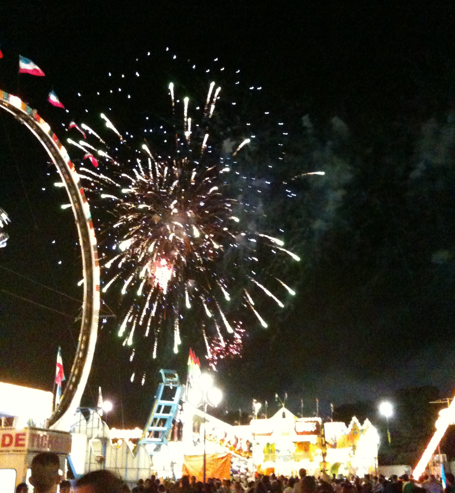 Fireworks at the 2009 North Carolina State Fair